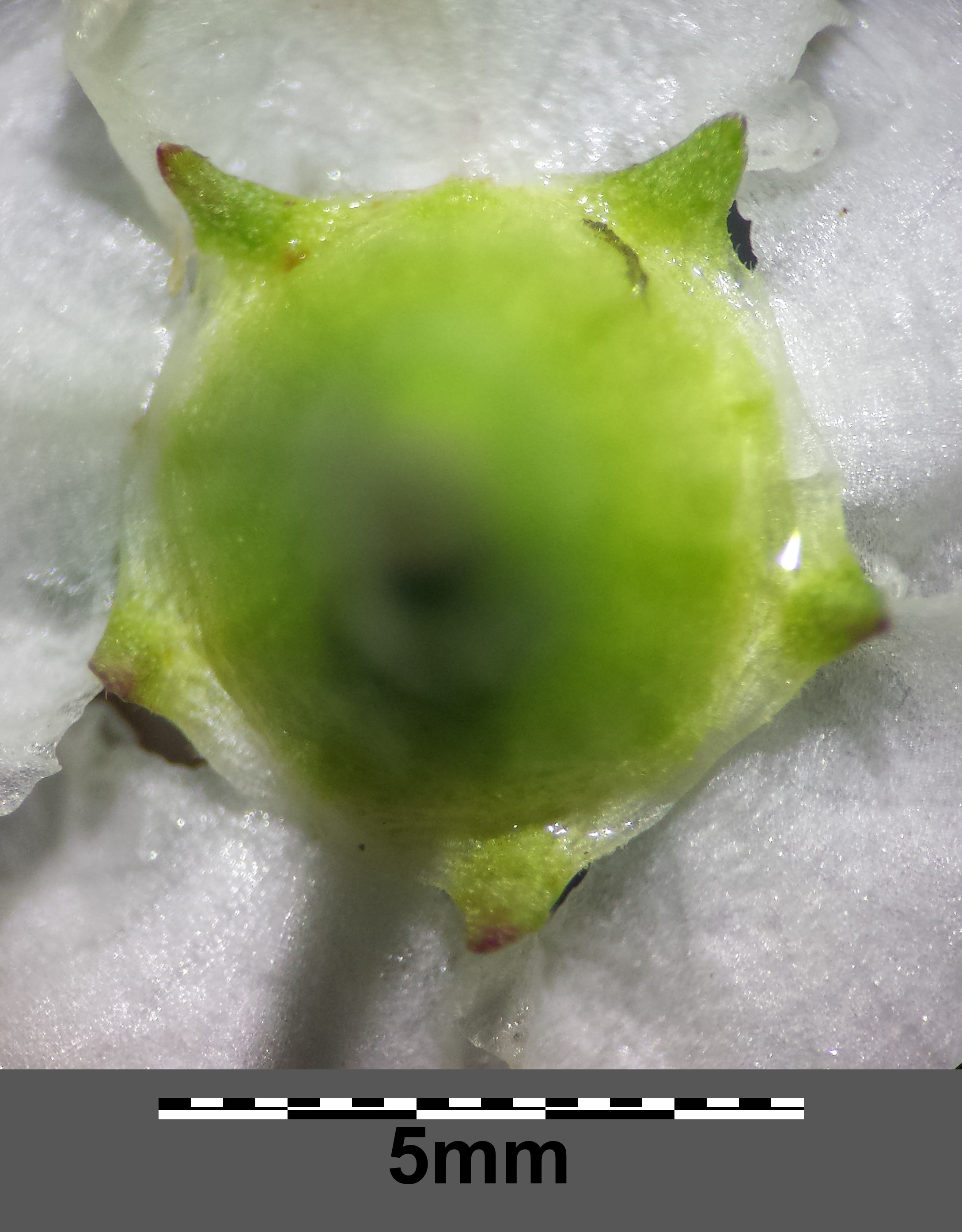 Calyx Taxonym: Crataegus laevigata (subsp. laevigata) ss Fischer et al. EfÖLS 2008 ISBN 978-3-85474-187-9 Location: Rohrwald, district Korneuburg, Lower Austria - ca. 330 m a.s.l. Habitat: Carpinion betuli